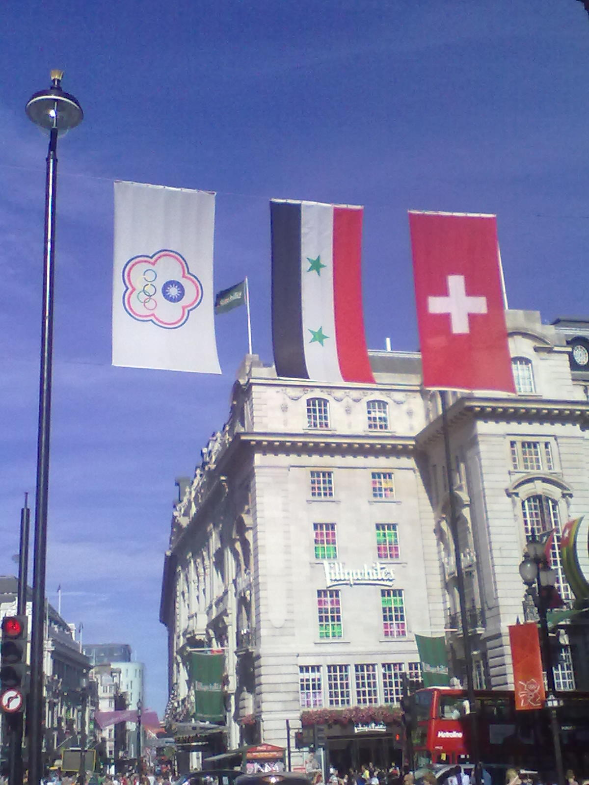 The Chinese Taipei Olympic flag suspended alongside other national flags during the 2012 Summer olympic display in the West end of London